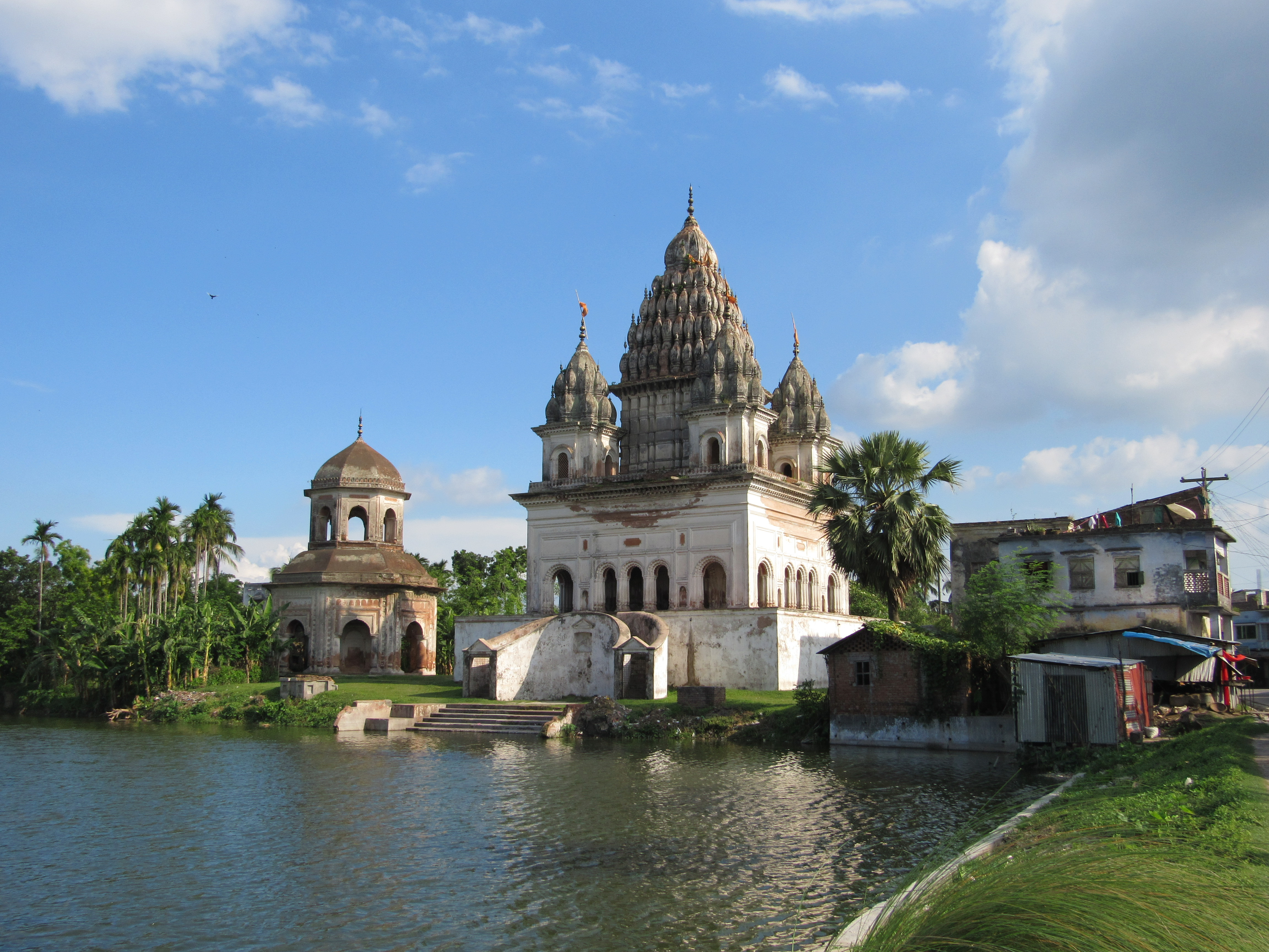 The Bhubaneshwar Shiva Temple of Puthia is the largest Shiva temple in Bangladesh. It was built in 1823 by Rani Bhubonmoyee Devi. On the left, another temple (known as Roth Mandir) could be seen.